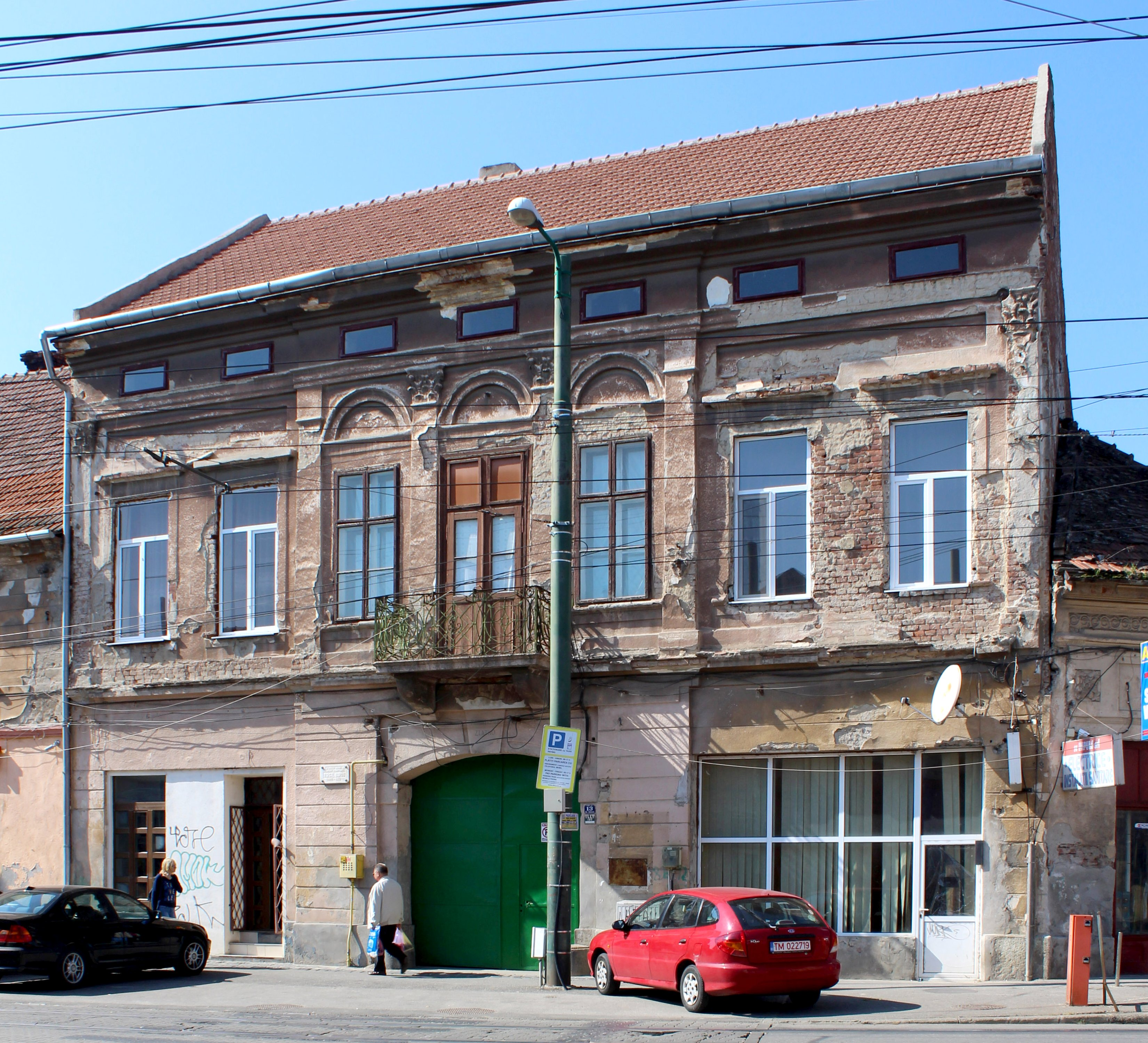 Zlatko House in Timișoara, Romania, built 1840.